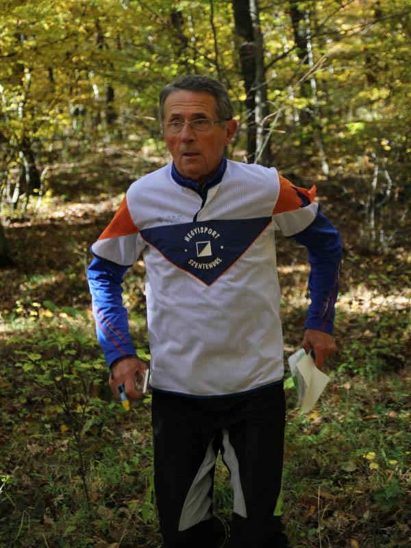 Zoltán Boros orienteering athlete